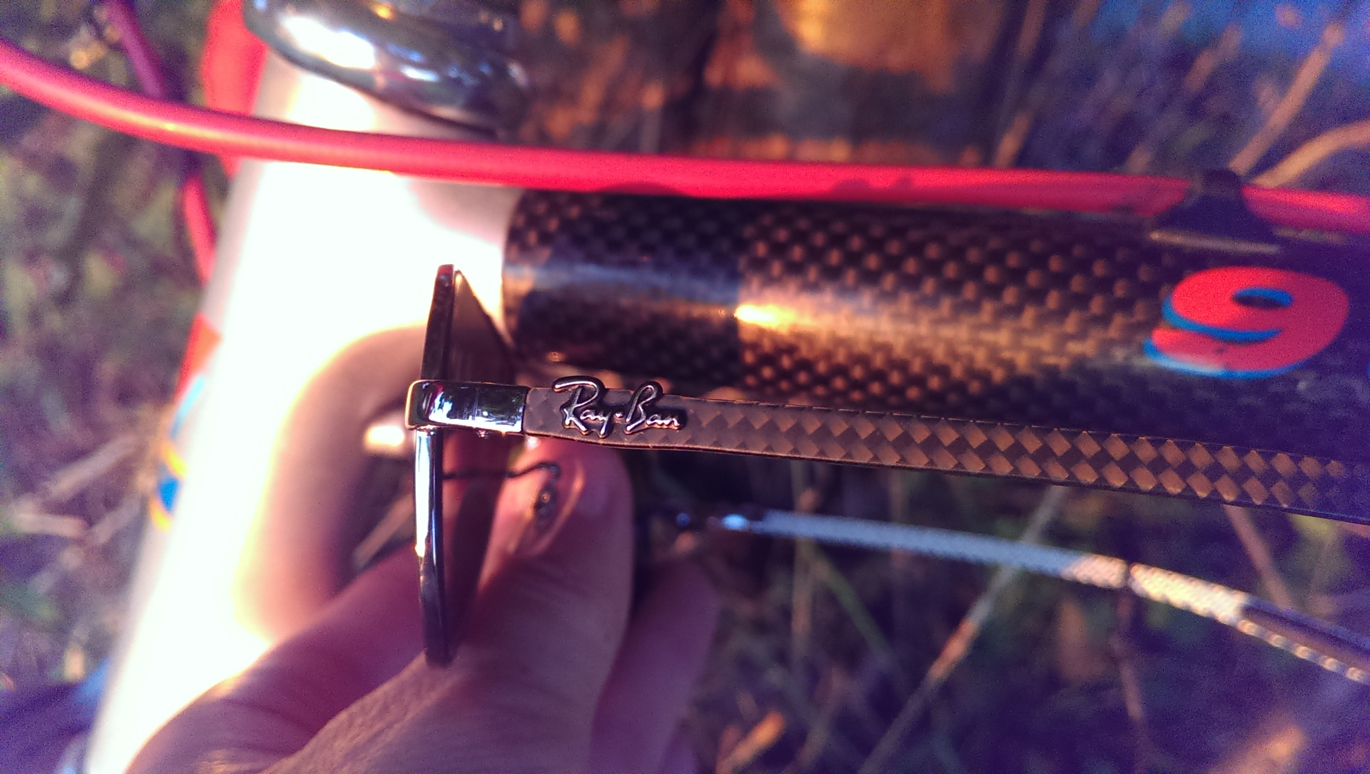 Carbon fibre applications